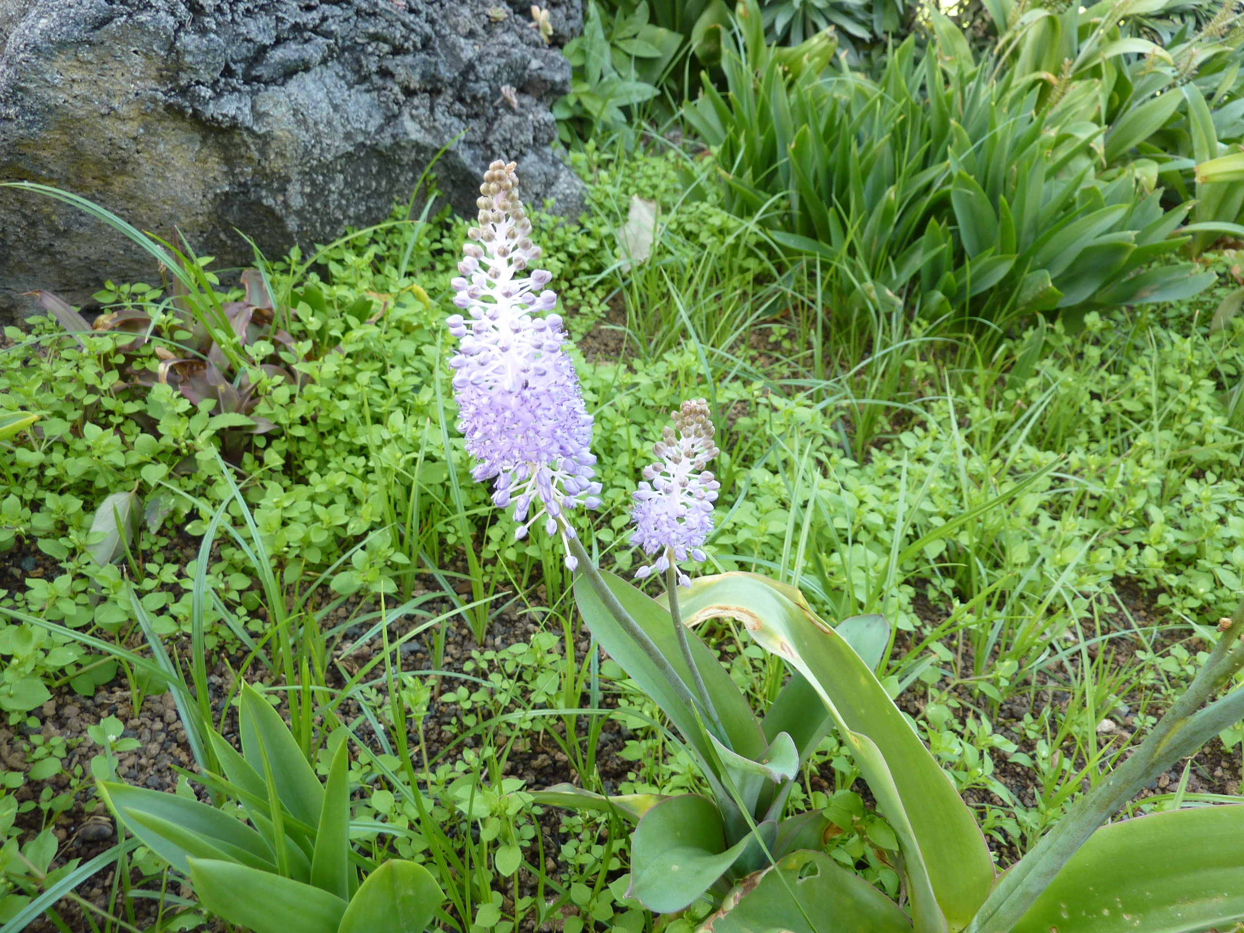 Scilla madeirensis in the Jardín Botánico Canario Viera y Clavijo